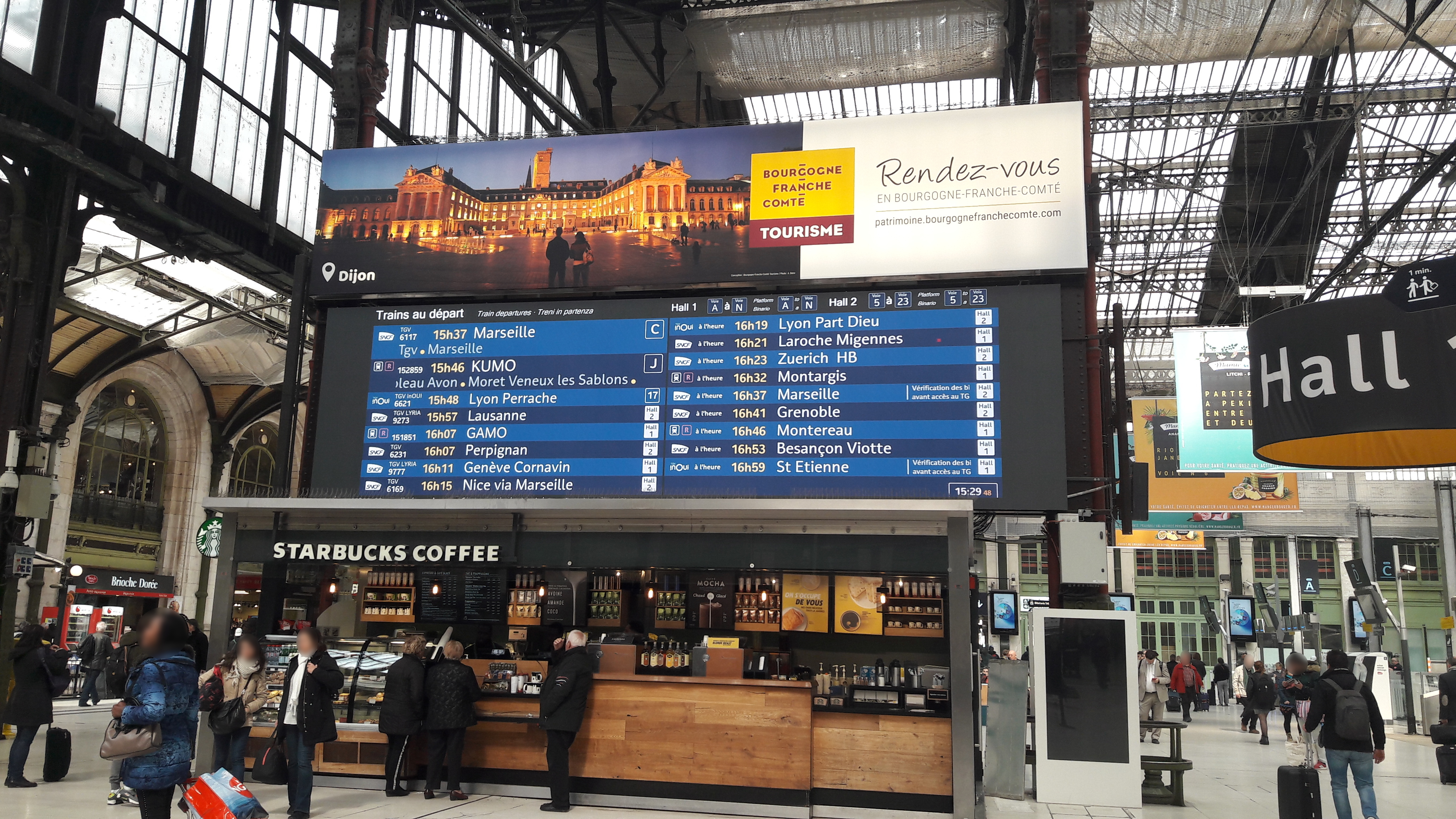 Mur d'image à LED installé en gare de Paris Gare de Lyon